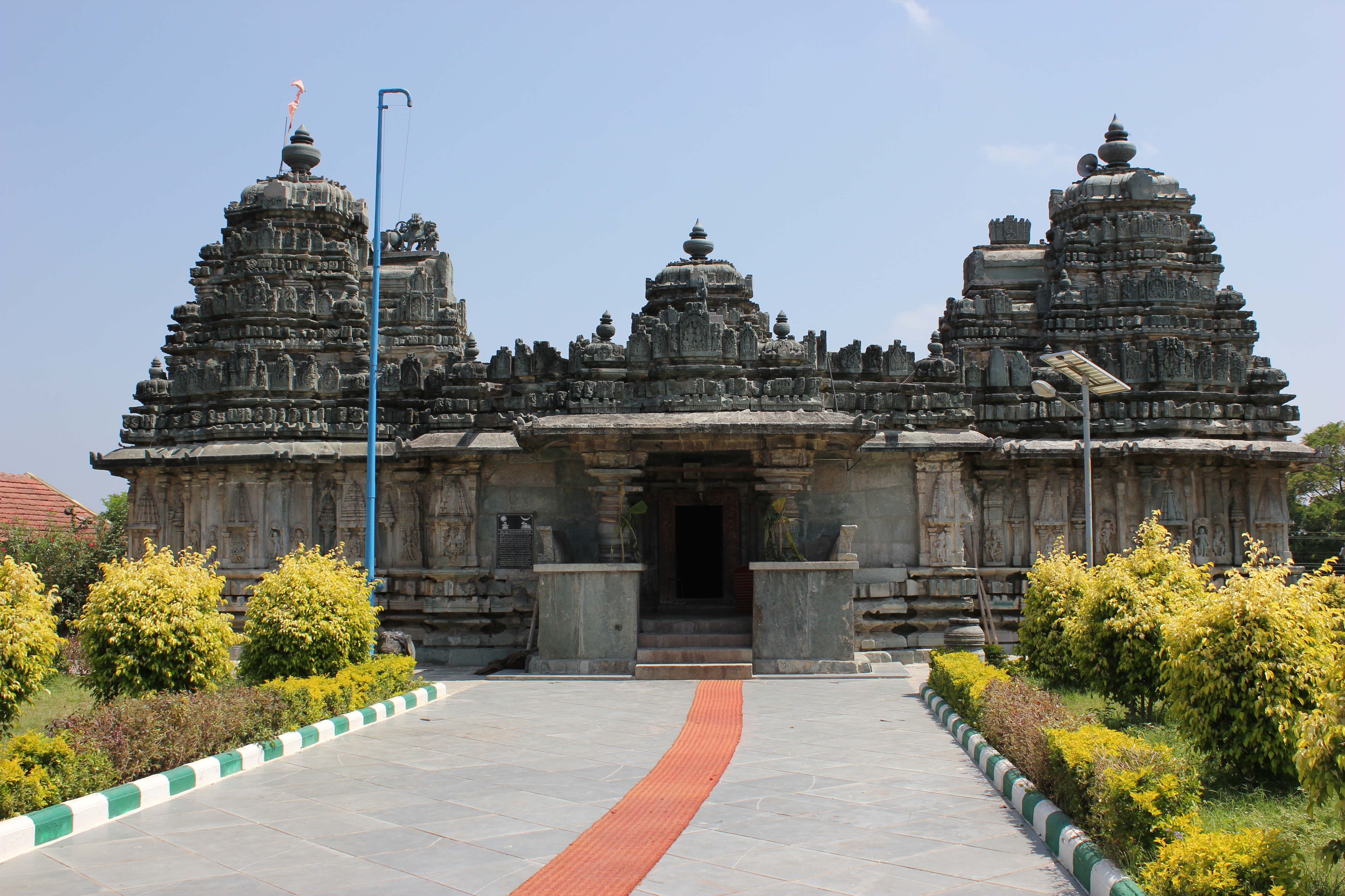 This photograph was taken by me (Dinesh Kannambadi) in the Mallikarjuna temple at Hirenallur, Chikkamagaluru district, Karnataka state, India. The temple was built during the rule of the Hoysala Empire.